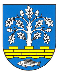 later coats of arms of the saxonian district of Hoyerswerda (only used in 1995)